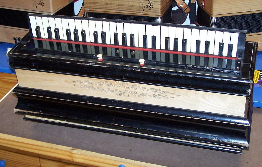 Harmoniflute : rare musical instrument, between harmonium and accordion. The stand has been lost.